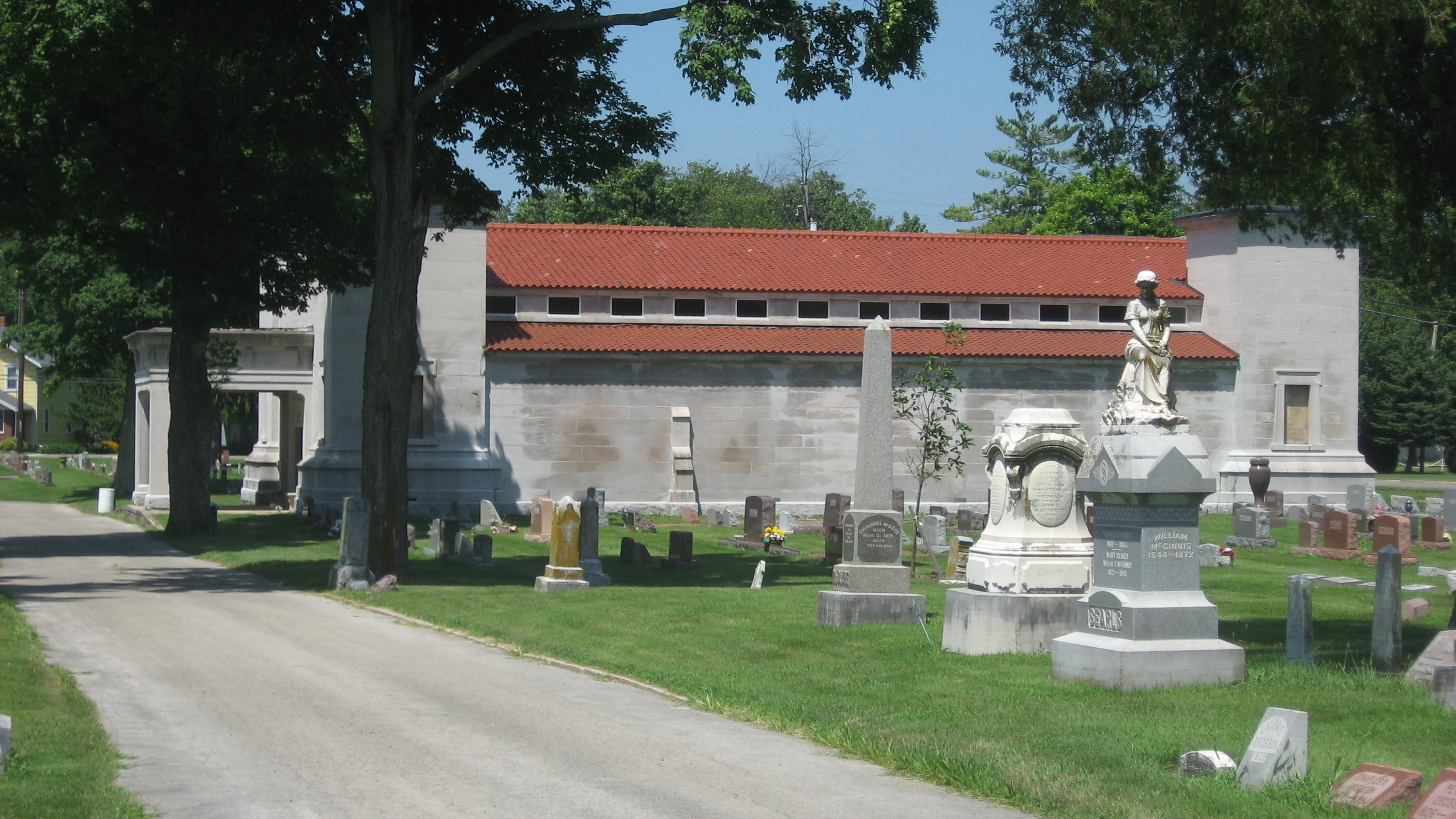 Southern side of the Greenville Mausoleum, located along West Street in the city cemetery of Greenville, Ohio, United States. Built in 1913, it is listed on the National Register of Historic Places.